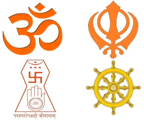 Hinduism,Sikhism,Jainism and Buddhism are major dharmic religions also known as Indian religions